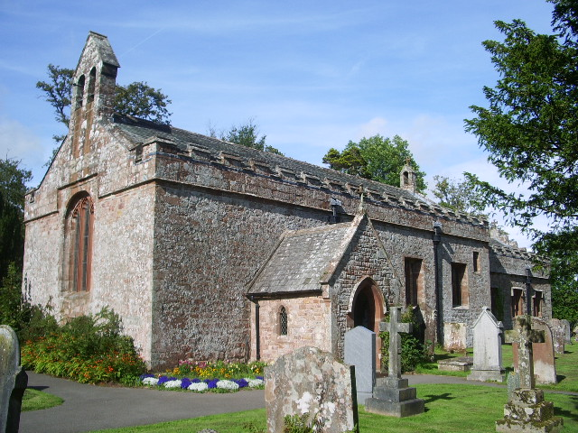 St Michael and All Angels Church, Muncaster